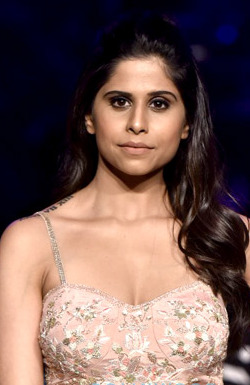 Sai Tamhankar at the Lakme Fashion Week 2018 – Day 5